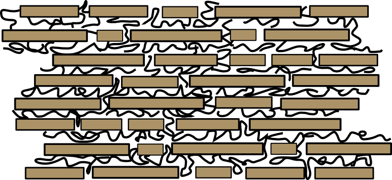 This is a simple schematic of what nacre looks like on a microscopic scale.